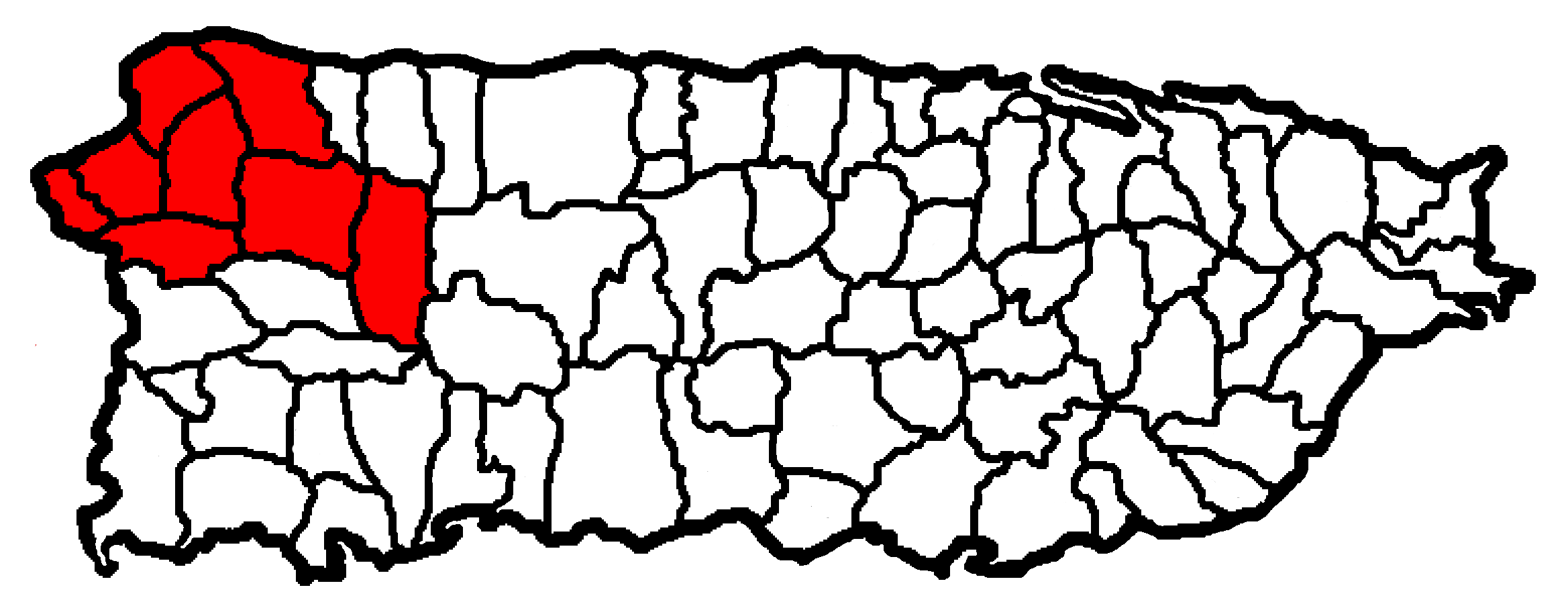 Map of Puerto Rico highlighting the Aguadilla-Isabela-San Sebastián Metropolitan Statistical Area.